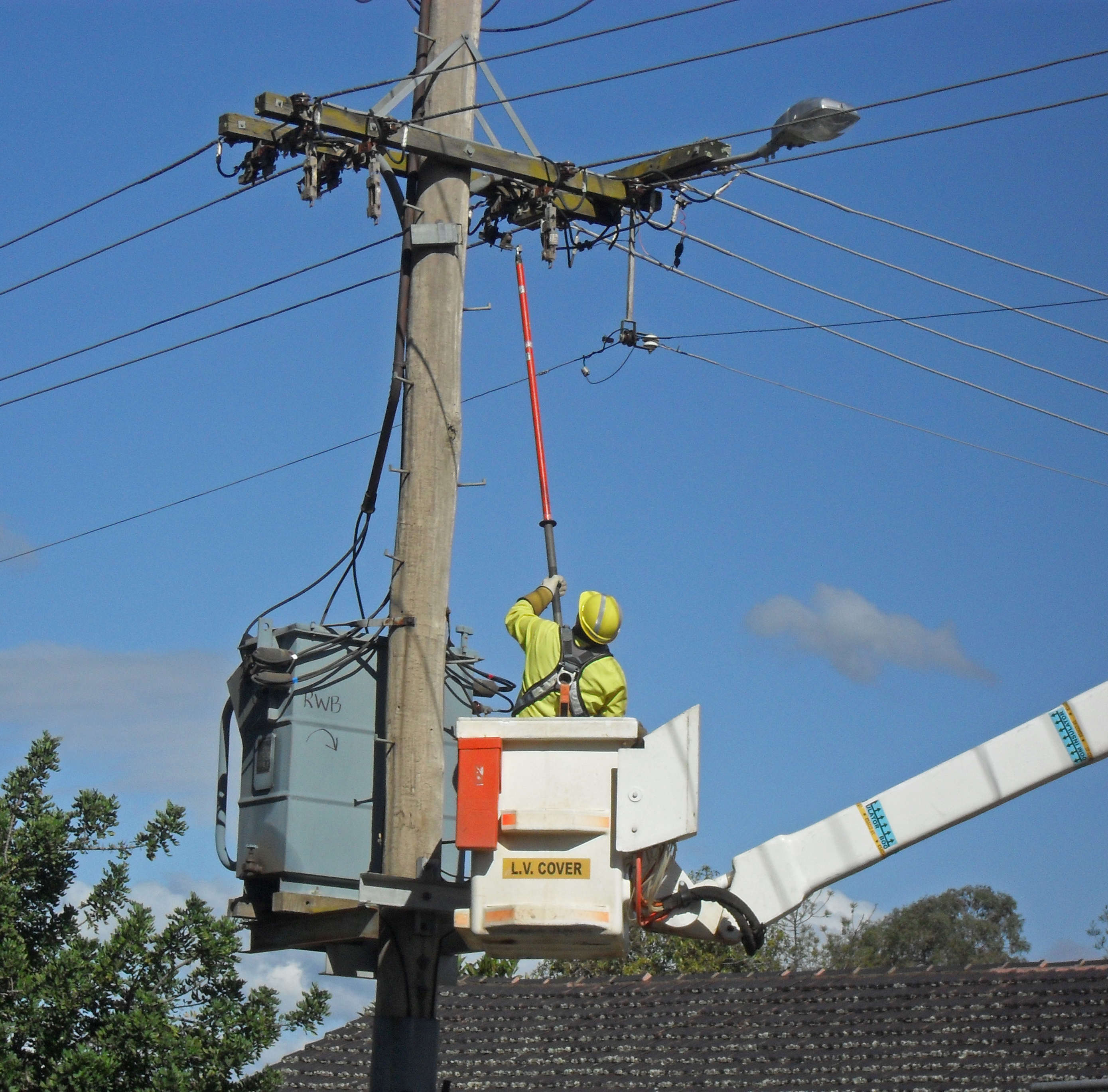 Country Energy linesmen closing the circuit on Power lines.